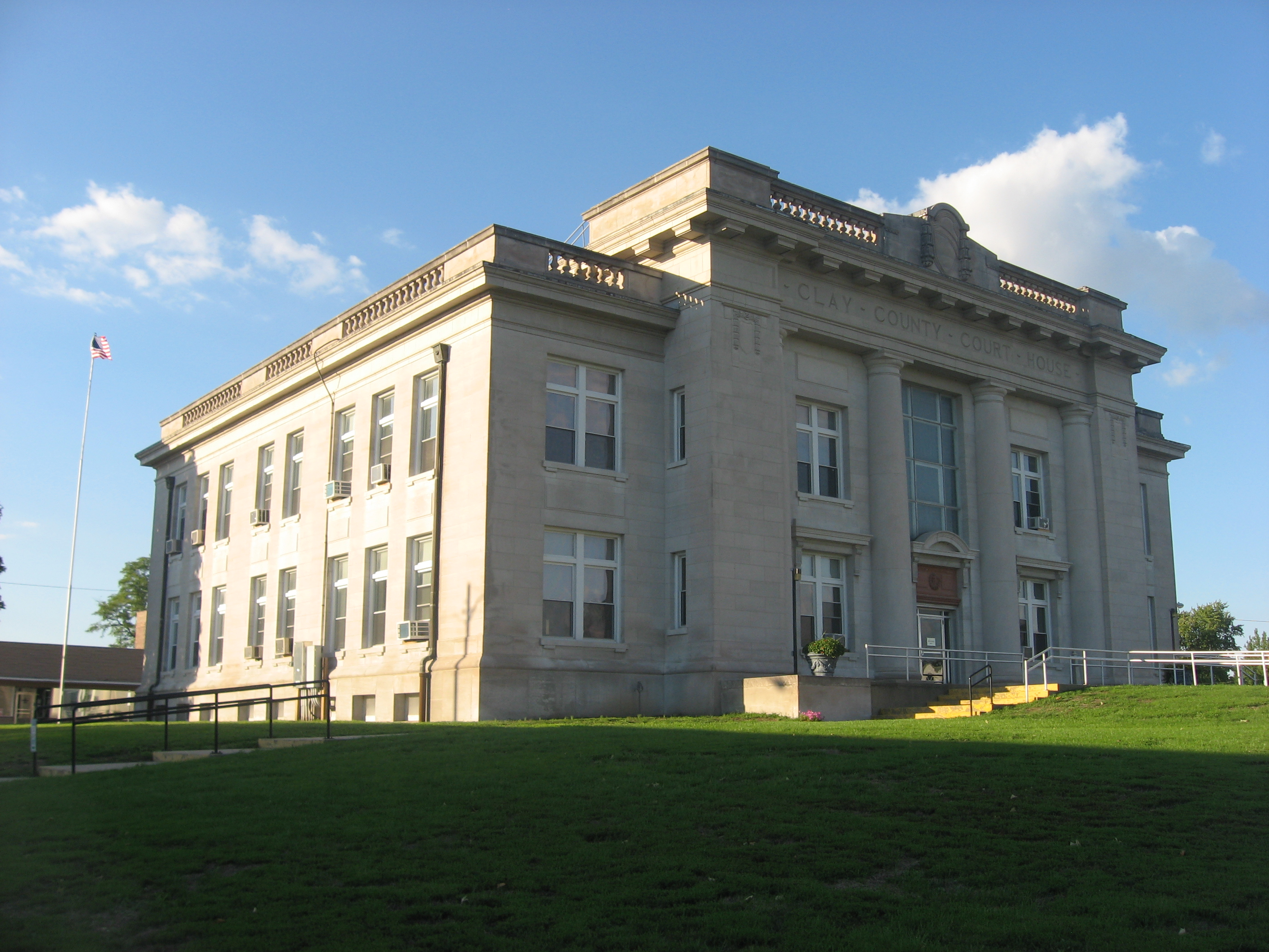 Western and southern sides of the Clay County Courthouse, located on Courthouse Square in downtown Louisville, Illinois, United States. It was built in 1912.